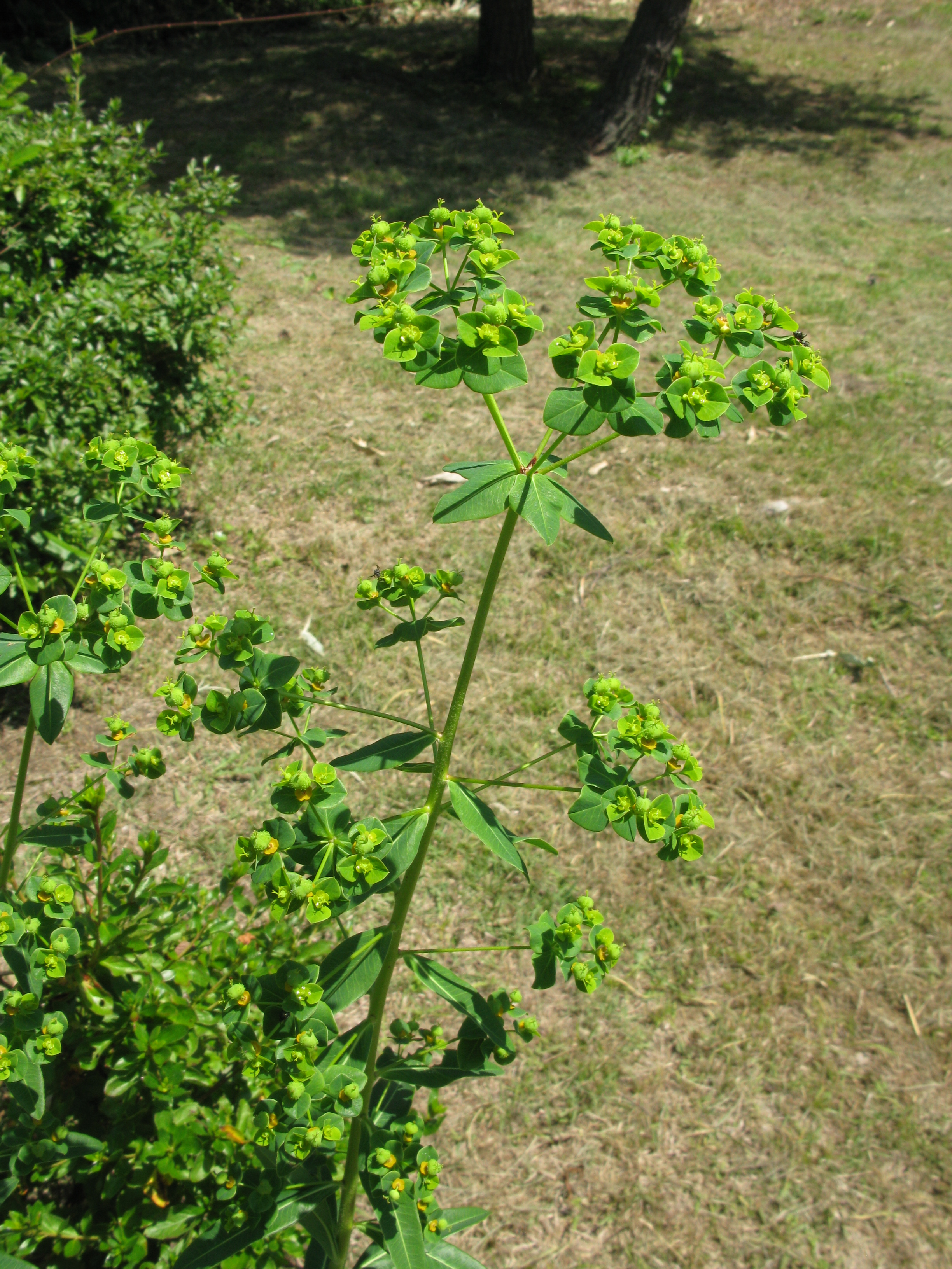 Euphorbia pekinensis, Aizu area, Fukushima pref., Japan